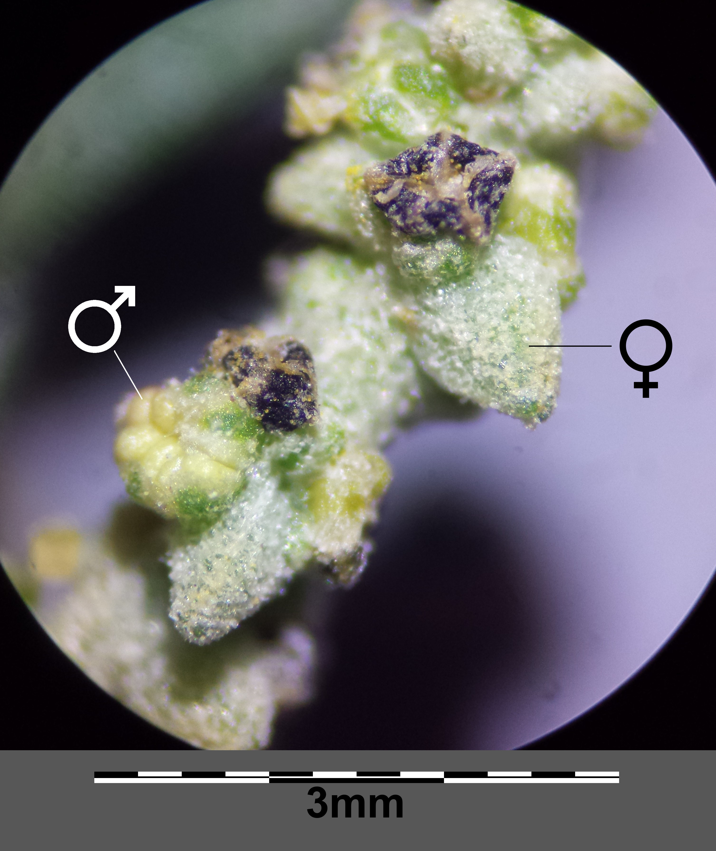 Male and female flowers Taxonym: Atriplex oblongifolia ss Fischer et al. EfÖLS 2008 ISBN 978-3-85474-187-9 Location: Schwarzlackenau, Vienna-Floridsdorf - ca. 160 m a.s.l. Habitat: ruderal, dry meadows